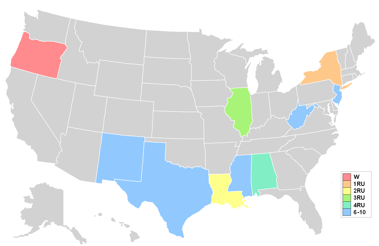 Map showing placements at the Miss Teen USA 1988 pageant. Key on graphic shows colour coding for break down of placements.